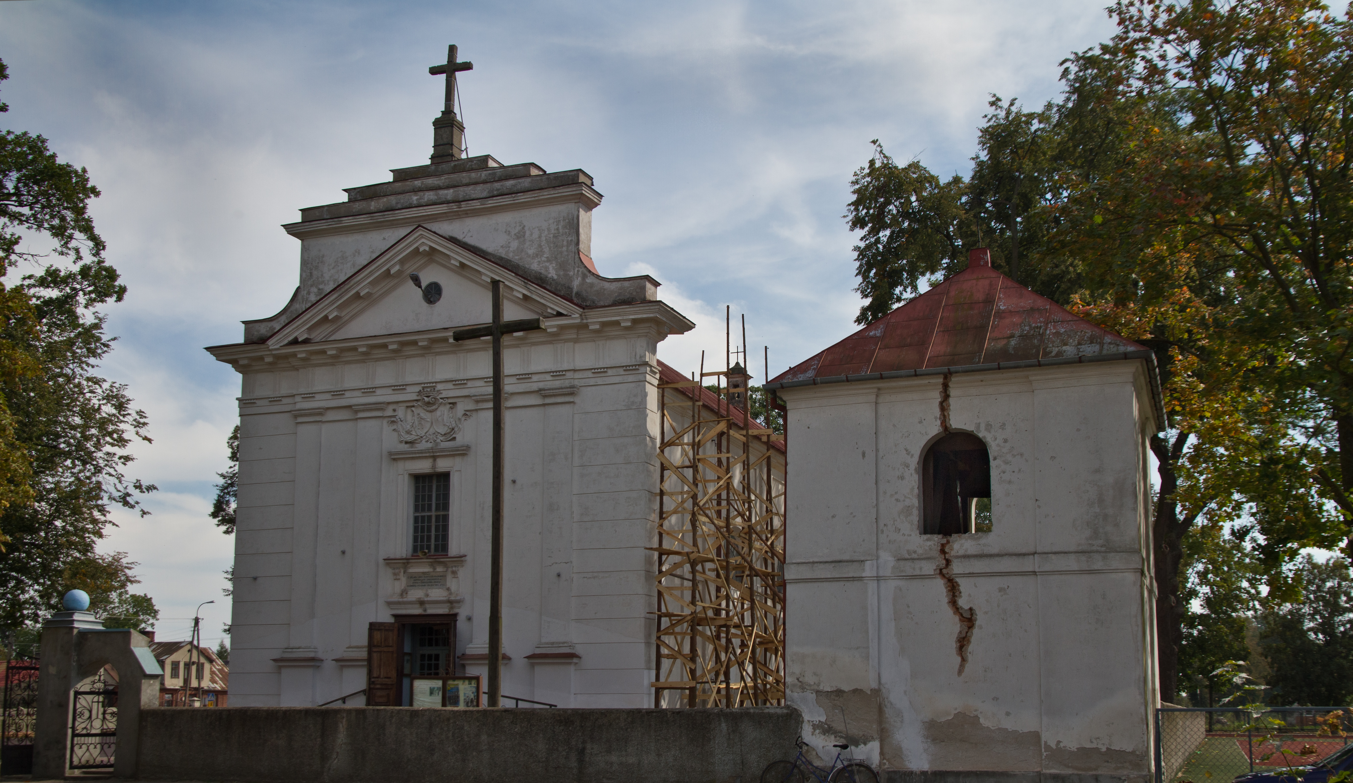 Krasnosielc, st. John Kanty Parish Church, main entrance and belfry